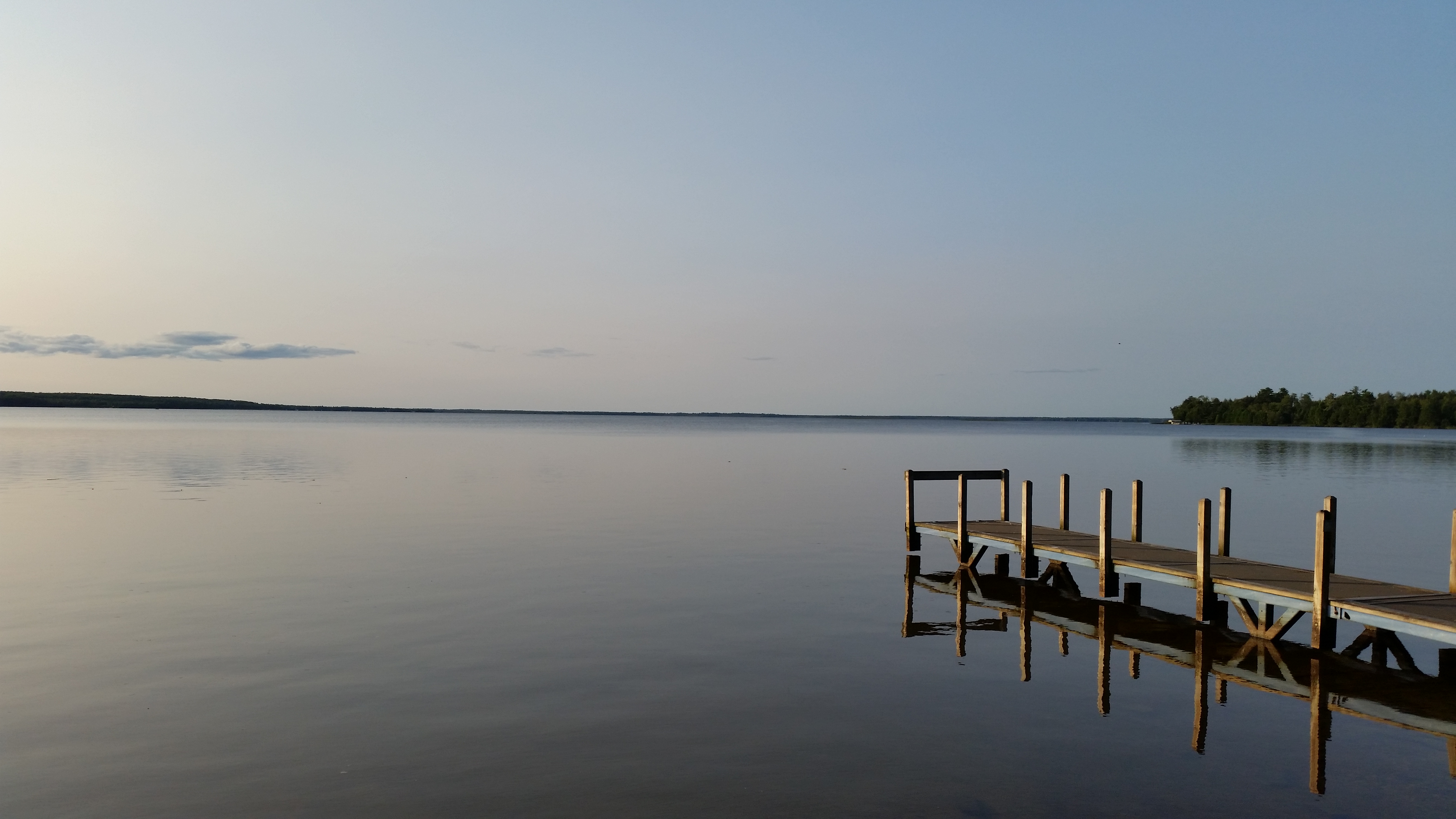 Depicted place: Indian Lake State Park